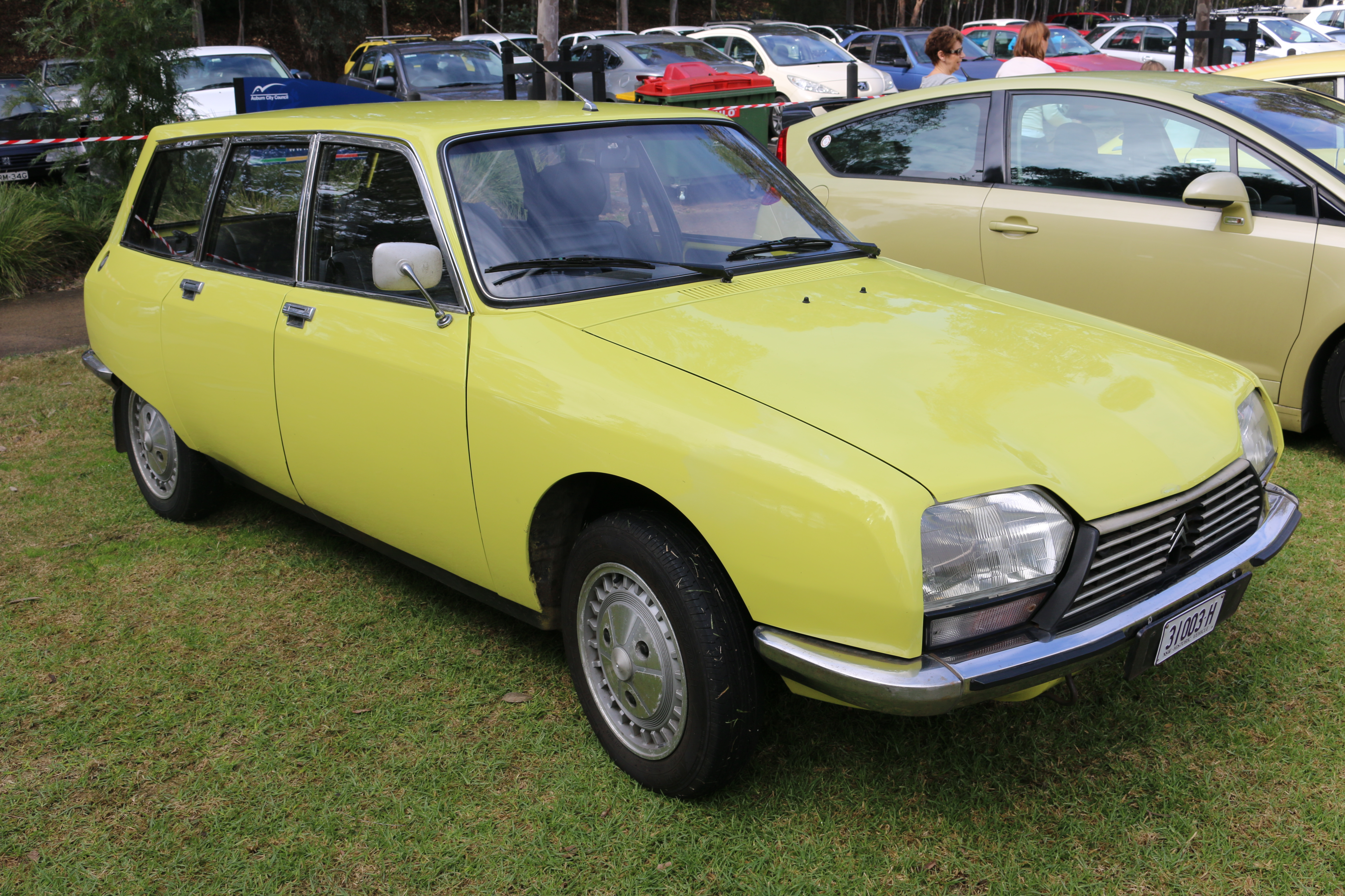 All French Day, Silverwater Park, NSW July 2016